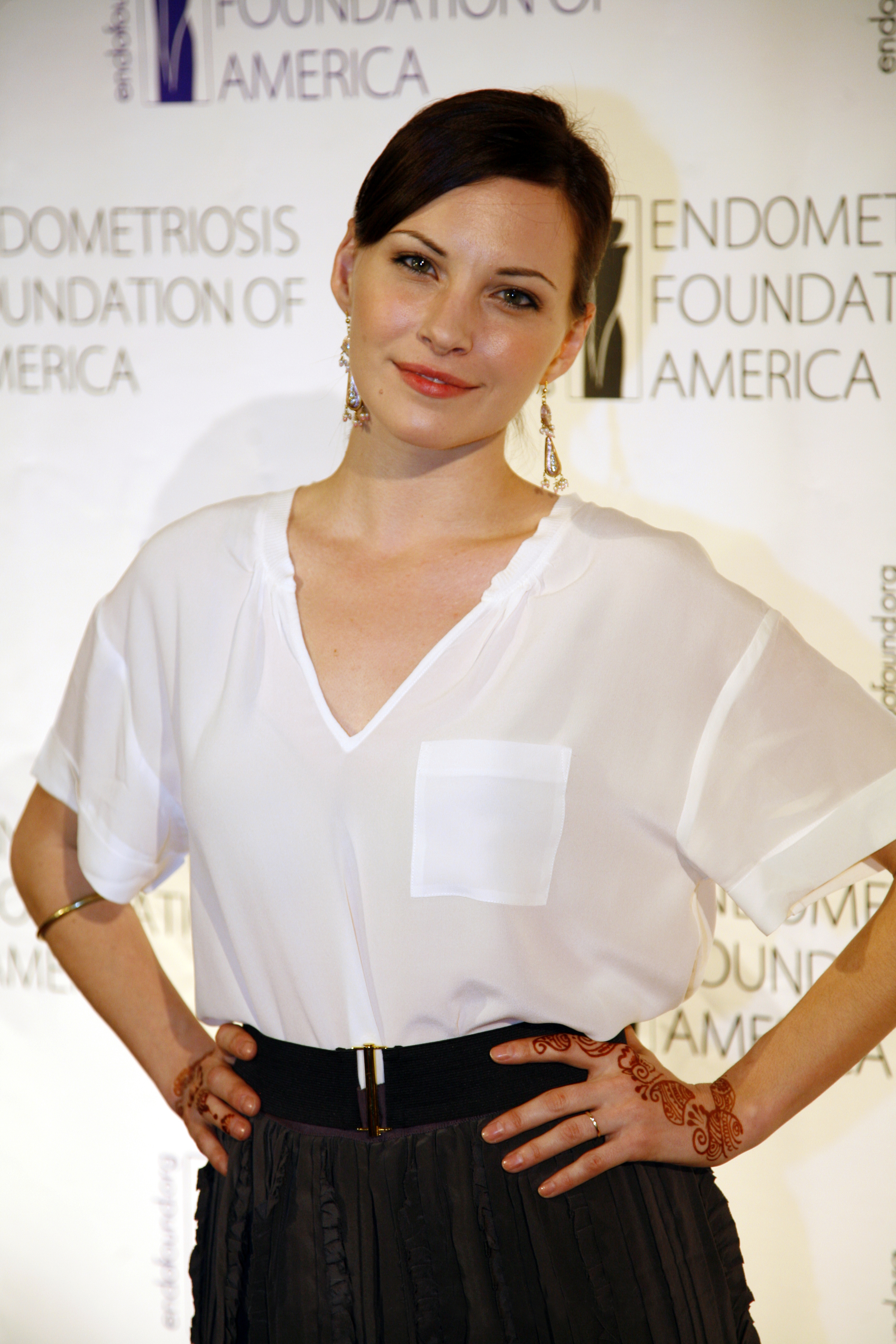 Jill Flint by yoni levy